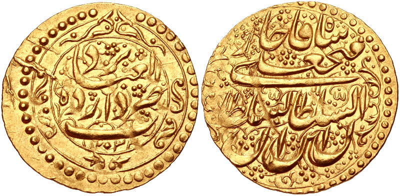 IRAN, Qajars. Fath 'Ali Shah. As Shah, AH 1212-1250 / AD 1797-1834. AV Toman (25mm, 4.62 g, 10h). Type W. Dar al-Ibadat Yazd mint. Dated AH 1233 (AD 1817/8). Album 2865; KM 753.13; Friedberg 34. Near EF, die breaks on reverse.